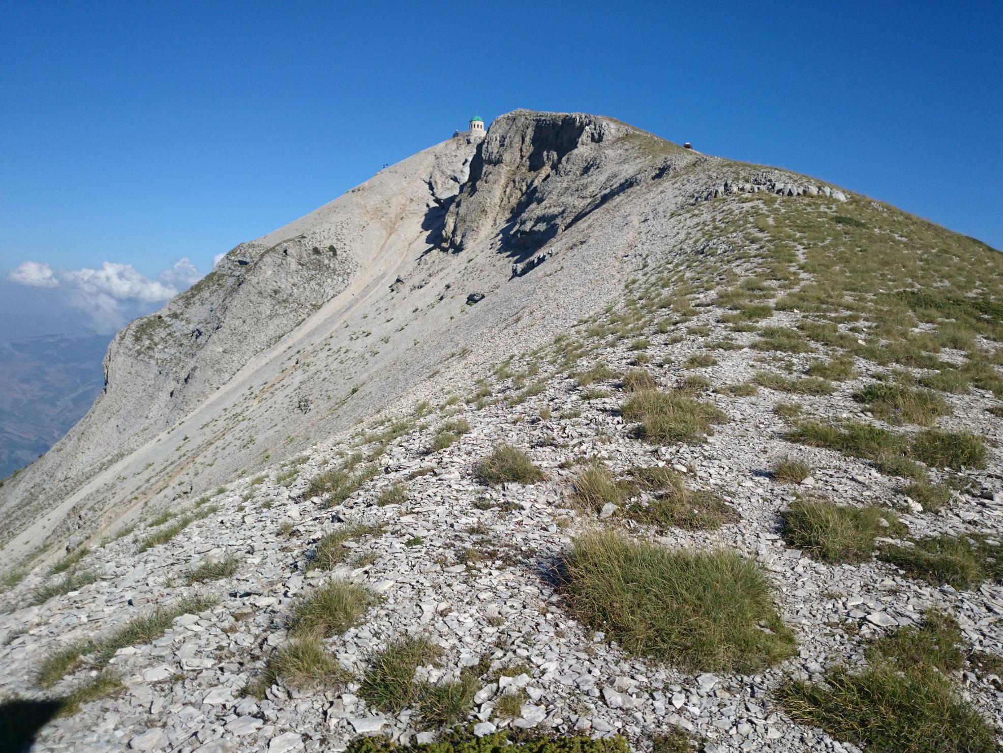 Tomorr Mountain, Türbe at top